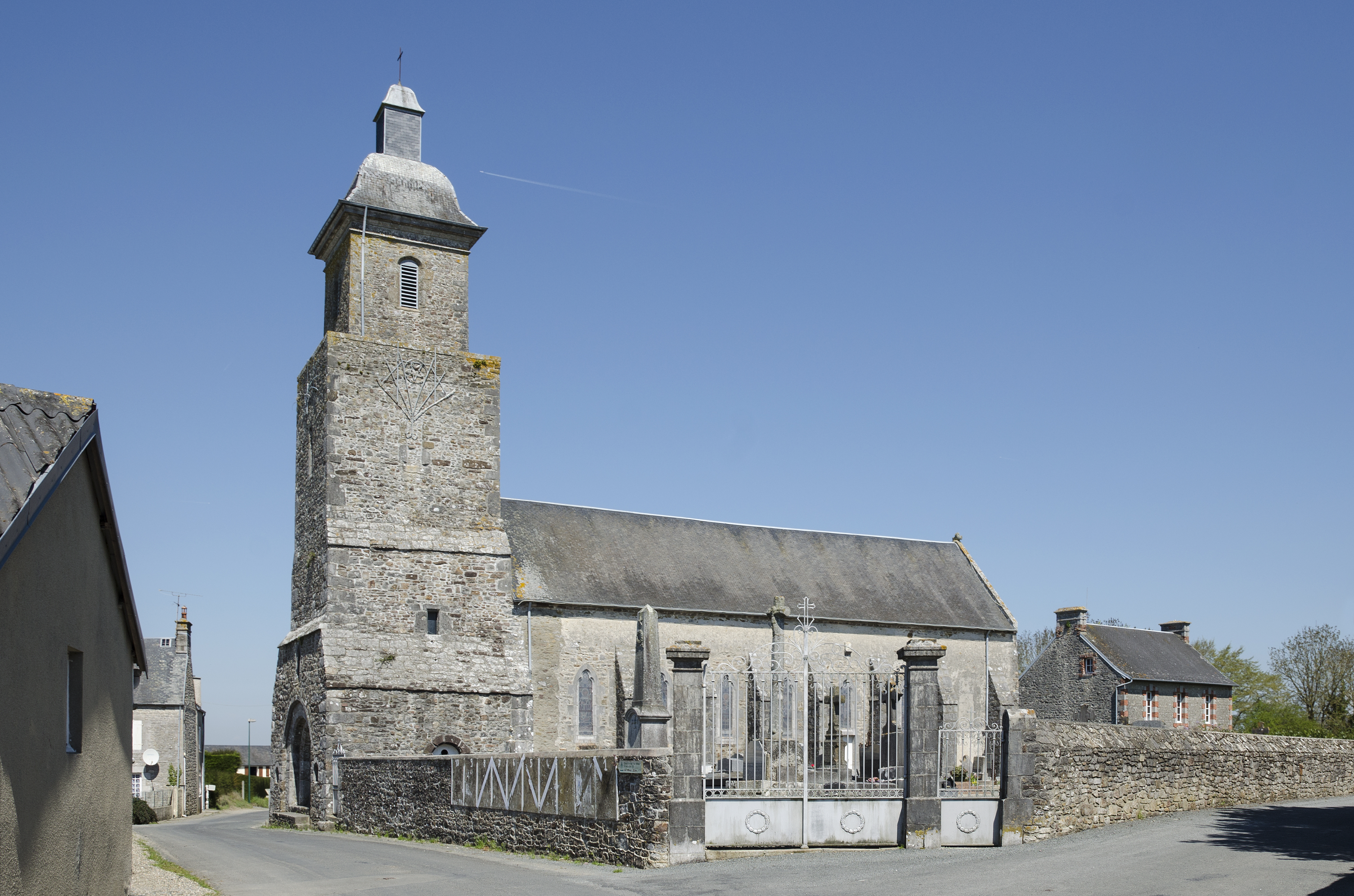 Saint-Gratien church - Hérenguerville, Manche, France